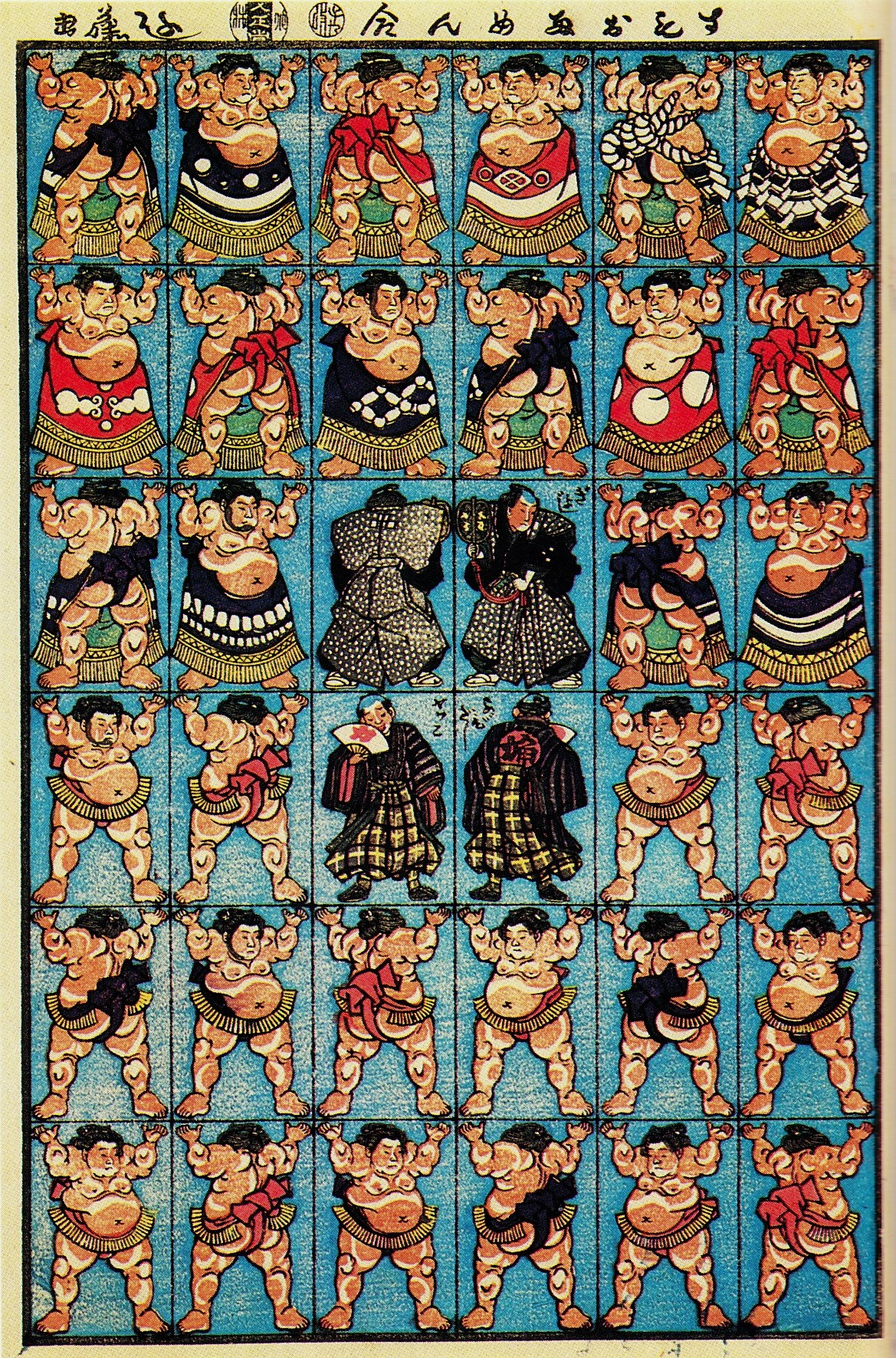 Playboard with Sumo wrestler, detail